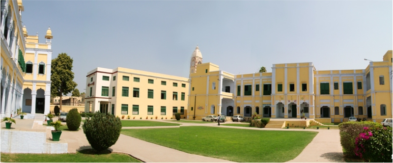 Senior Wing - View 1